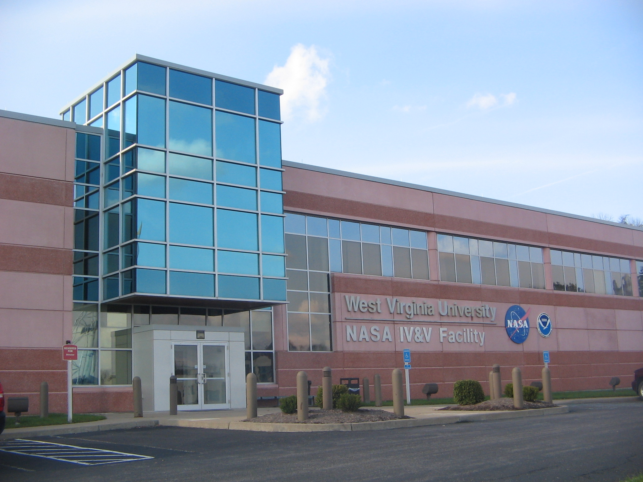 NASA Independent Verification and Validation Facility in Fairmont, West Virginia, USA